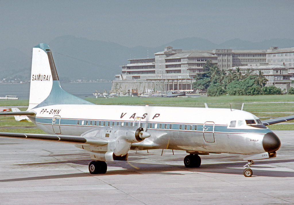 NAMC YS-11A-200 of VASP at Rio Santos Dumont airport in 1972